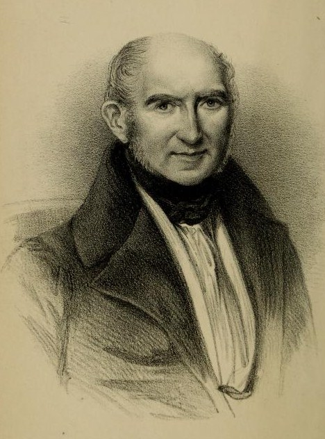 Portrait of Henry Gunning (1768-1854), English memoirist and official of the University of Cambridge.